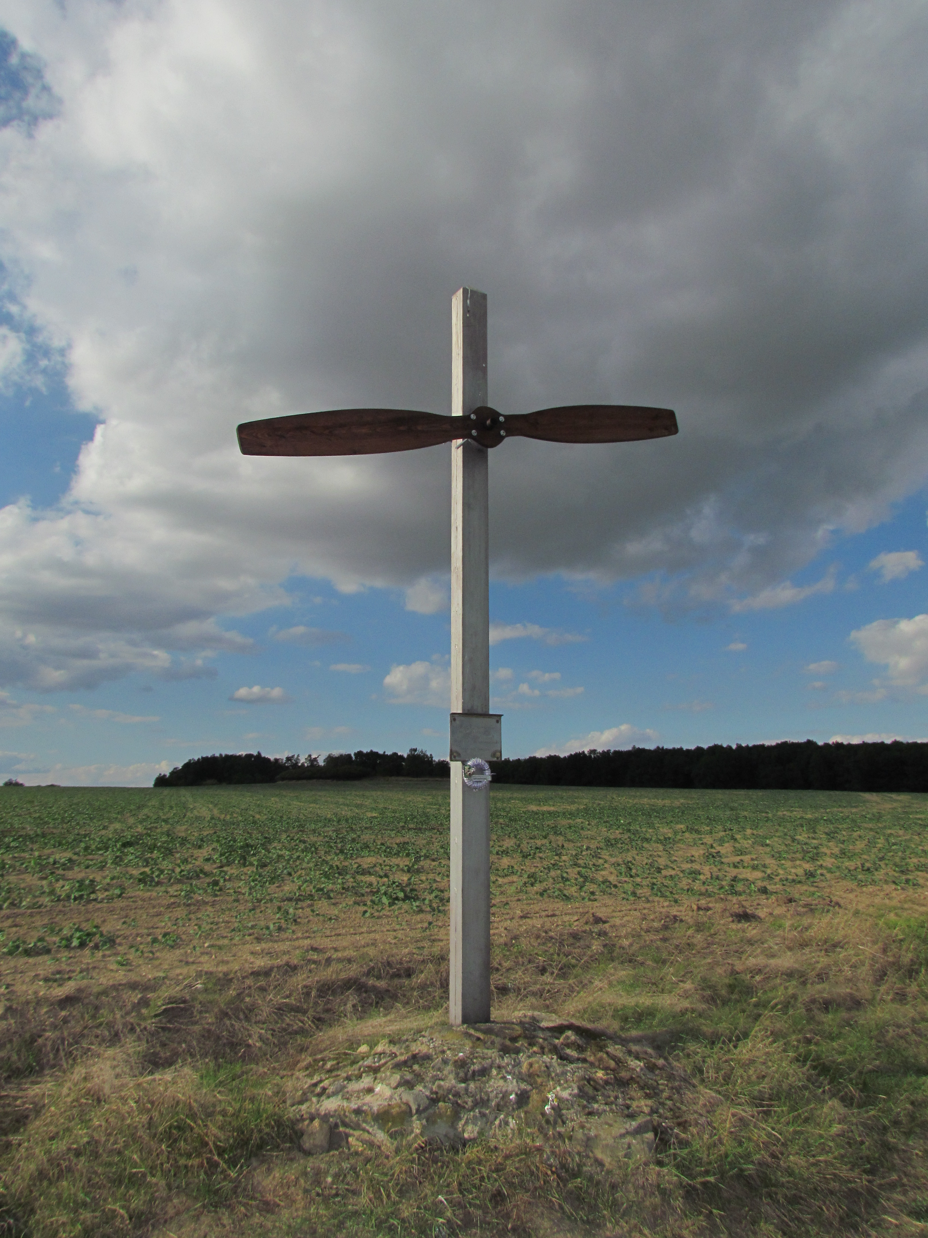 Blade memorial of pilot Jiří Hronovský near Hostim, Znojmo District.